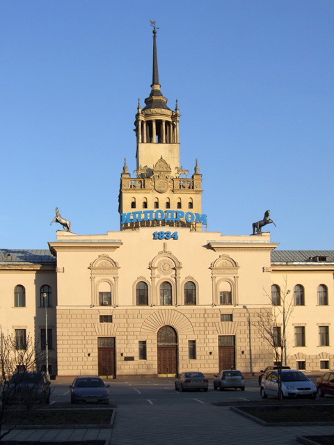 Moscow Hippodrome